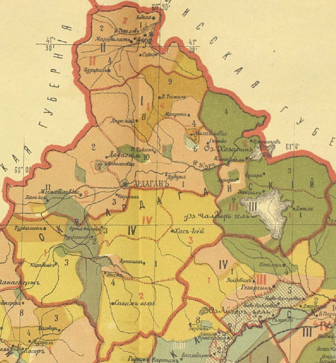 Ethnographic map of the Ardahan OkrugAzərbaycanca: Ərdahan dairəsinin etnoqrafik xəritəsi